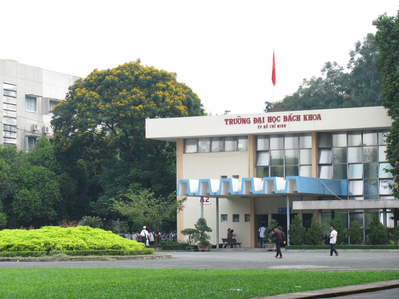 Thư viện Trường Đại học Bách khoa